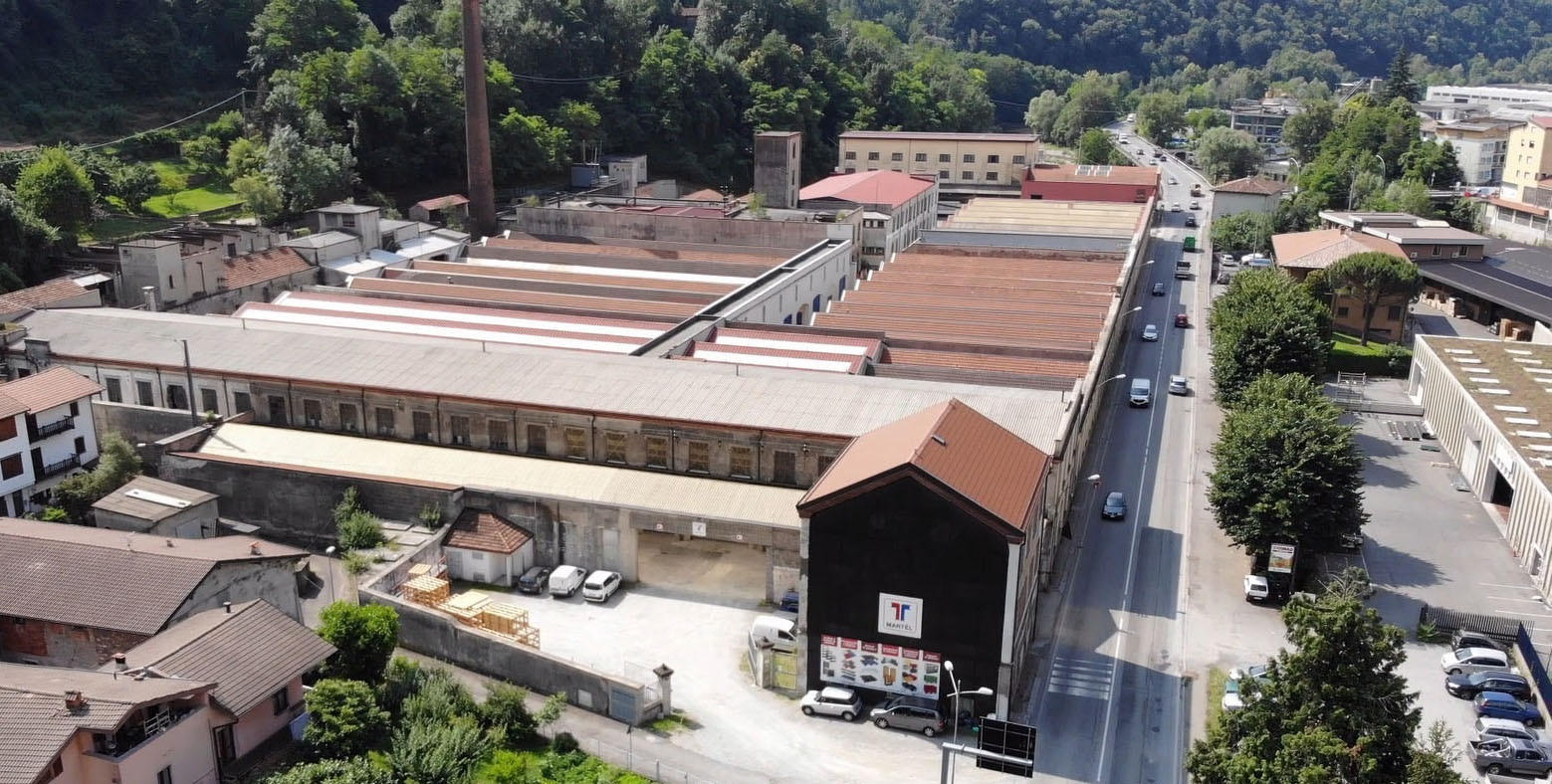 Martèl s.r.l. factory